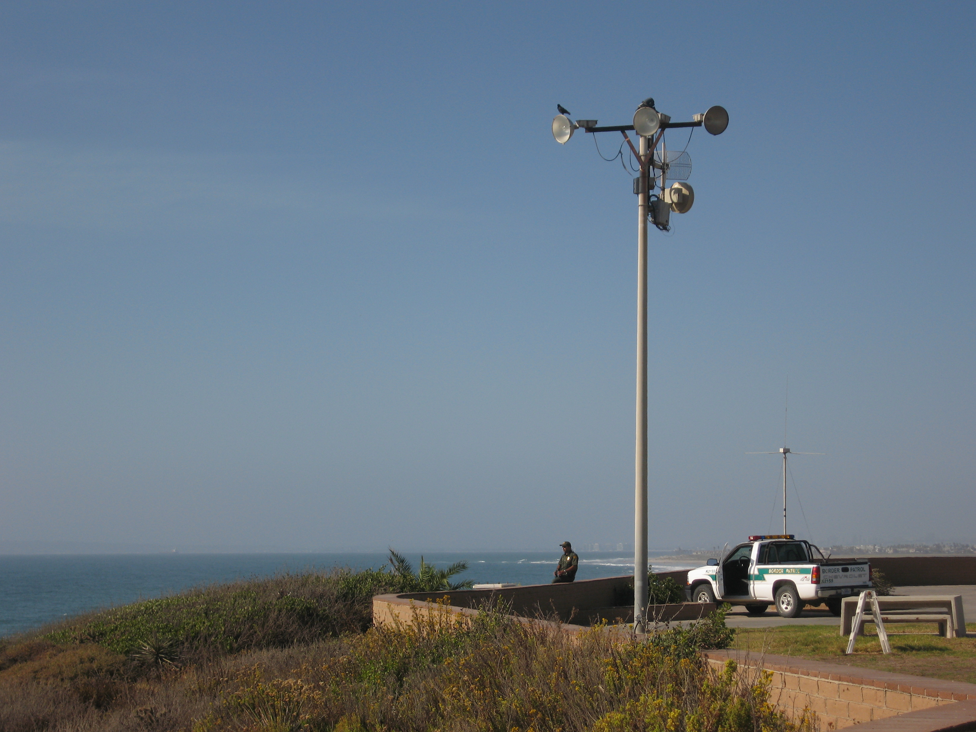 Border patrol agent on lookout at Border Field State Park